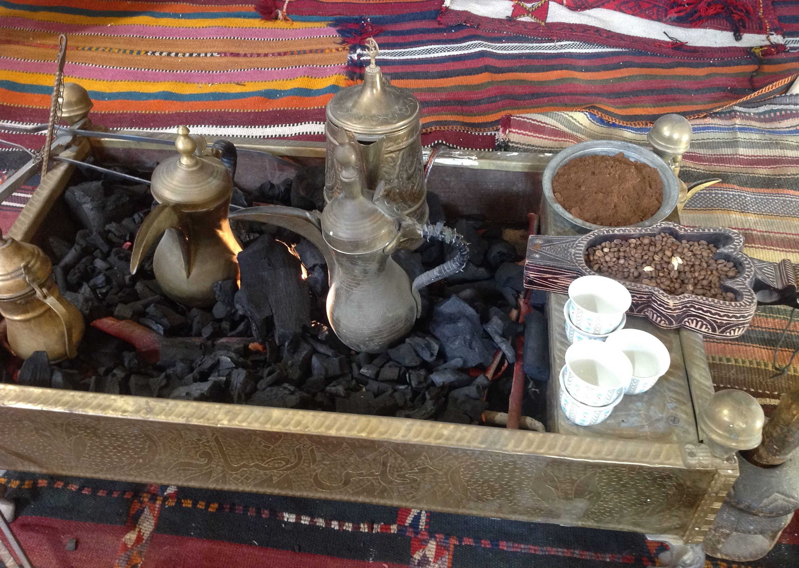 Different Tools used in preparing traditional Arabian coffee in Jordan